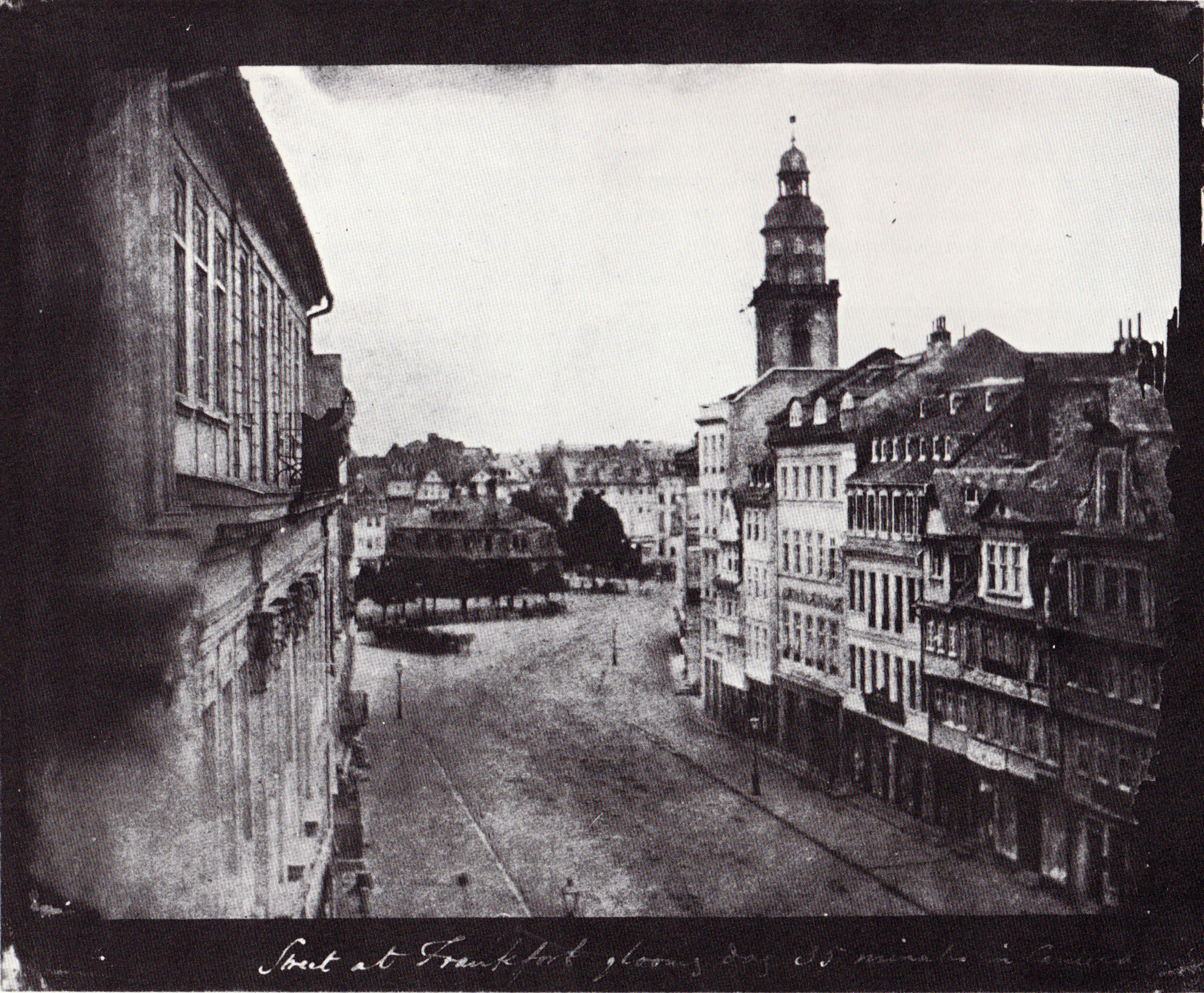 Westbound view from a window of the hotel "Russischer Hof" at the Zeil towards the Hauptwache, calotype.Note on the print: "street at Frankfort, gloomy day, 32 minutes in camera"Notice: Talbot's print is most likely mirror-sided. The Russische Hof, which was demolished in 1891, was on the north side of the Zeil, cf. a photo by Mylius, the Katharinenkirche lies south of the Zeil. The Zeil is runnig from east to west towards the Hauptwache, so the Katharinenkirche would never appear on the right side (north) of the guard-house at the Hauptwache, cf. also Ravenstein 1861, Hauptwache.